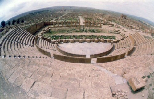 Description= Roman Theatre, Timgad (Algeria) photo token by M.GASMI 2005. Source= Own photograph by uploader. Author= M.GASMI.